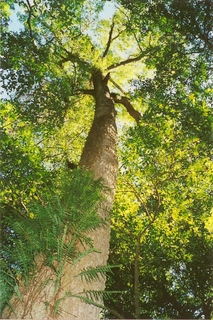 Doryphora sassafras at Goodenia Road, near Eden, NSW